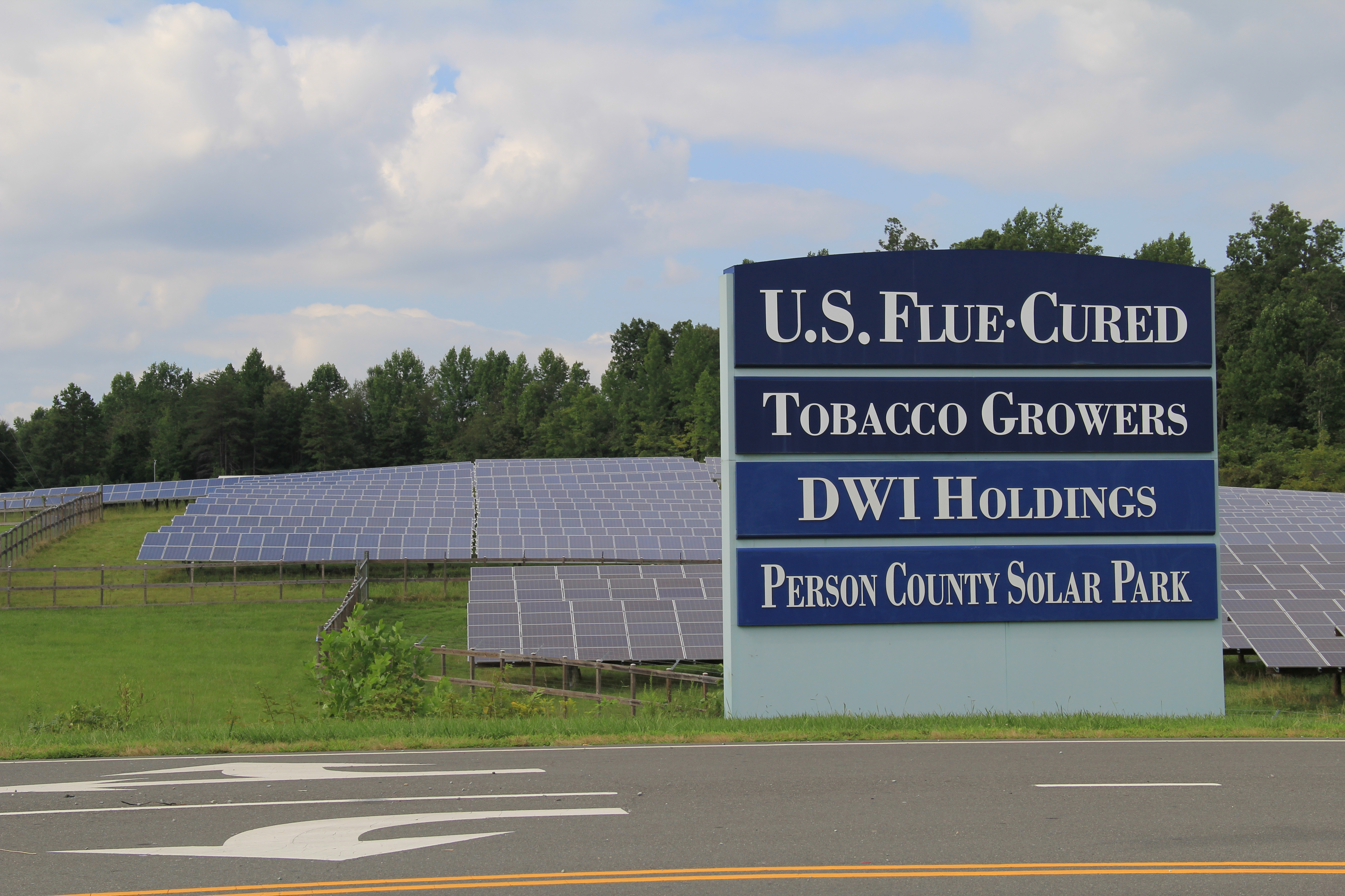 U.S. Flue-Cured Tobacco Growers - DWI Holdings - Person County Solar Park - outside Roxboro NC. Photo taken as part of Wikimedia Summer of Monuments 2014 camping trip.